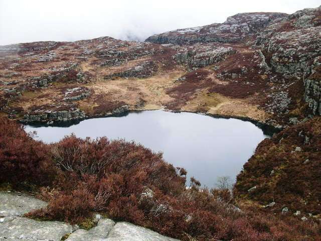 Llyn Morwynion